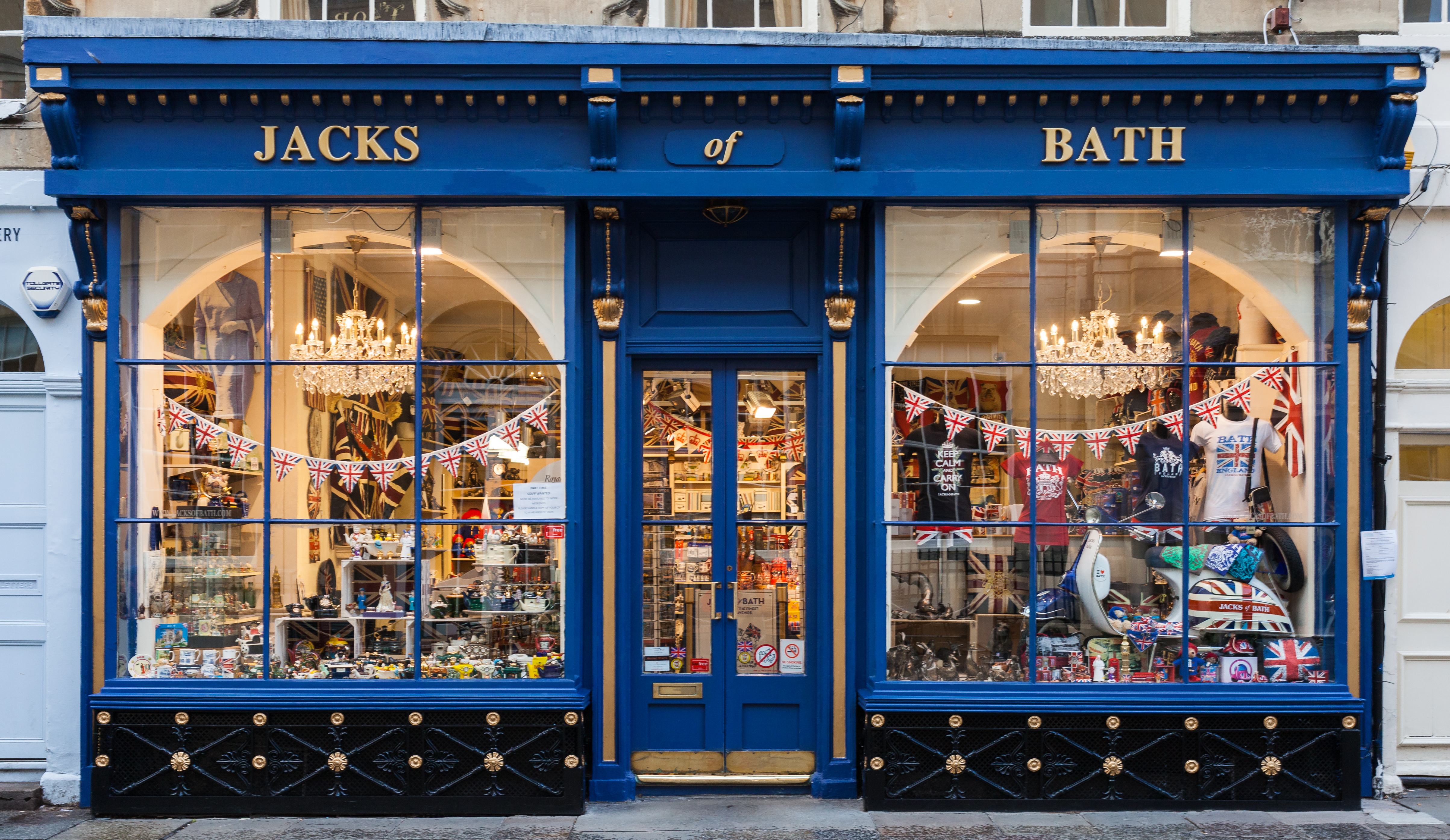 Jacks of Bath shop, 6-9, Abbey Church Yard, Bath, England